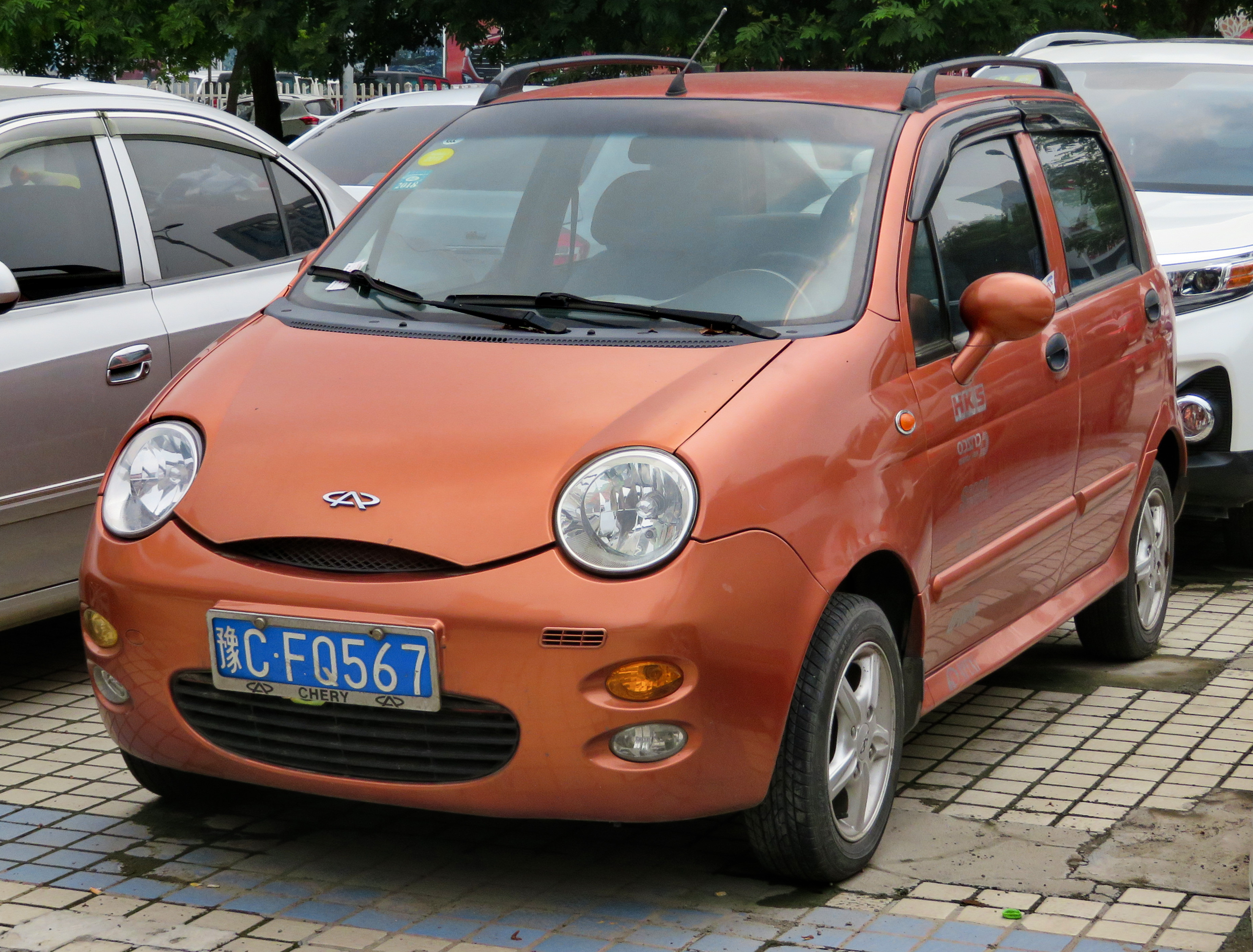 A 2010 Chery QQ3 photographed in Luolong District, Luoyang, Henan province, China